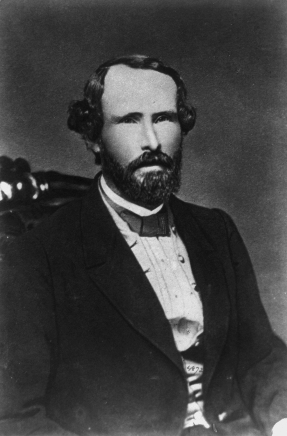 TITLE George W. Randolph CALL NUMBER LOT 4213 [item] [P&P] REPRODUCTION NUMBER LC-USZ62-76628 (b&w film copy neg.) No known restrictions on publication. SUMMARY Half lgth., seated, facing right. MEDIUM 1 photographic print. CREATED/PUBLISHED [no date recorded on caption card] NOTES Civil War Collection. Civil War Photograph Collection (Library of Congress). No. 4872. This record contains unverified data from caption card. Caption card tracings: B.I.; Civil War. REPOSITORY Library of Congress Prints and Photographs Division Washington, D.C. 20540 USA DIGITAL ID (b&w film copy neg.) cph 3b23809 CARD # 2002698714